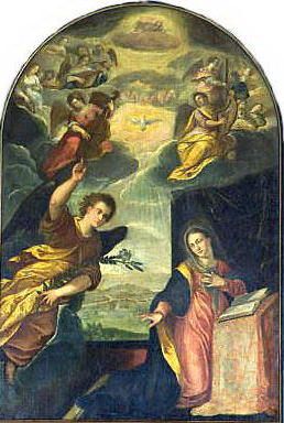 The Annunciation